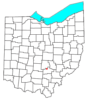 Locator map of the unincorporated community of Rockbridge in Hocking County, Ohio, United States.